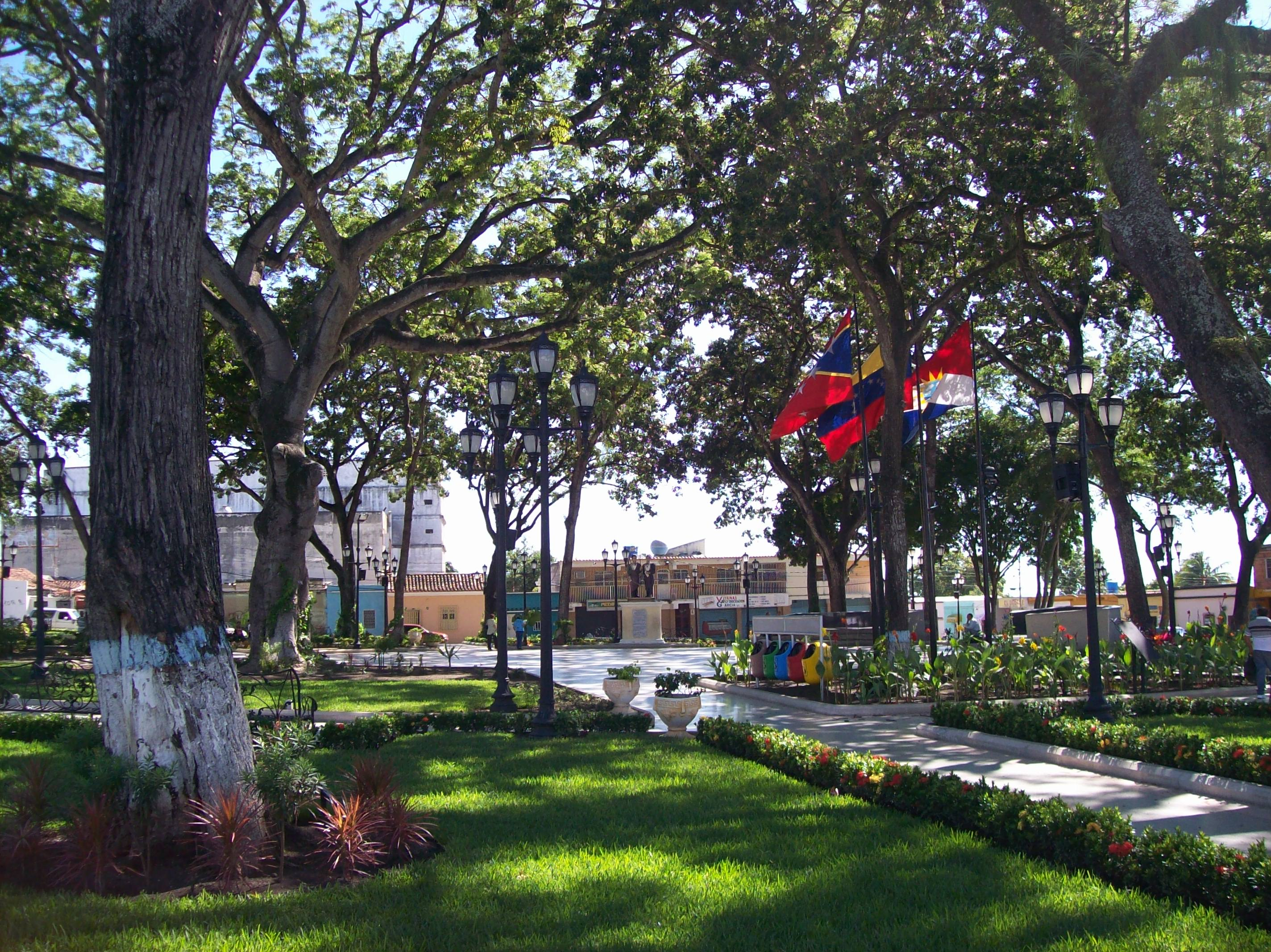 Bolívar and Sucre square on independence, Capital of the Municipality Independence, Yaracuy state. Venezuela